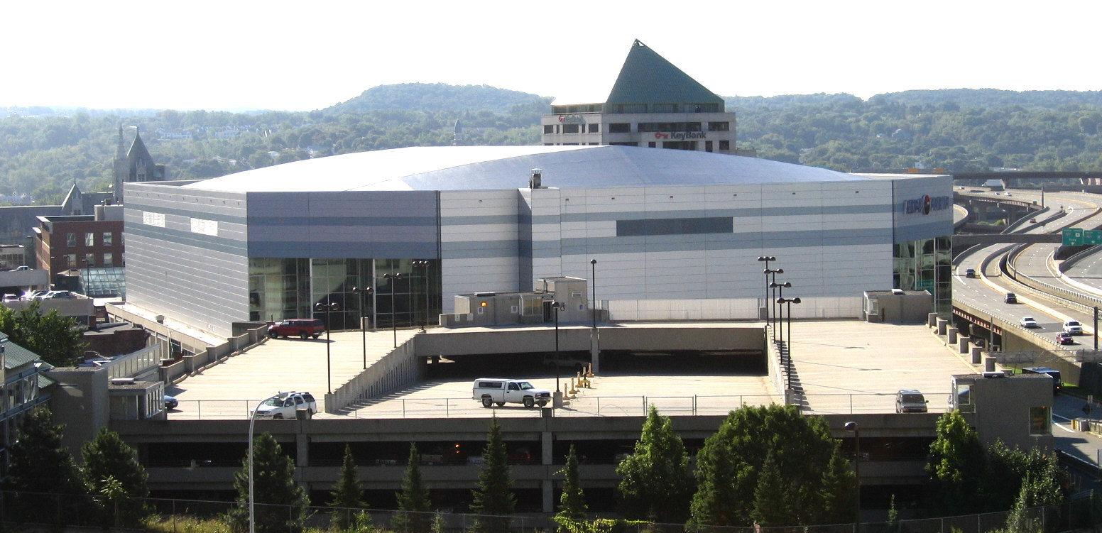 The Times Union Center and its parking garage, as viewed from the Empire State Plaza. The 1997-2006 Pepsi Arena signage is visible in this photo. The Times Union Center is a major sports and entertainment venue in downtown Albany. When this photo was taken in 2006, it was still known as the Pepsi Arena.